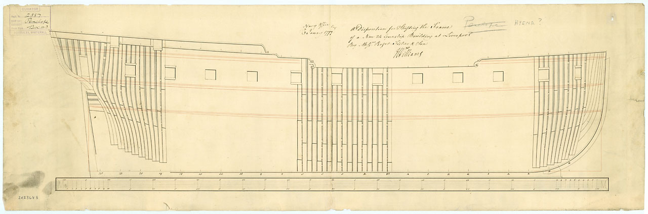 HYAENA 1778 frame